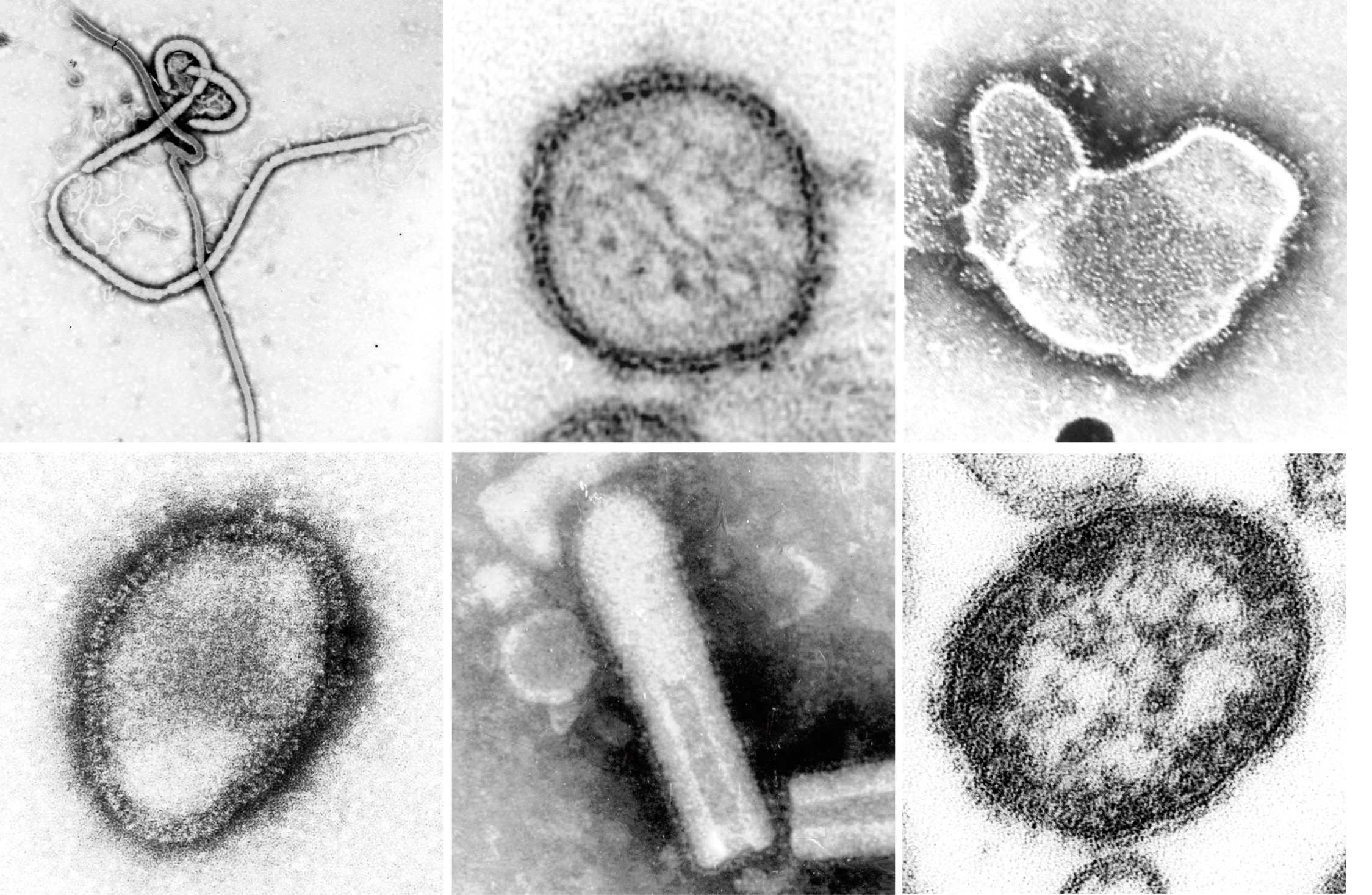 A montage of transmission electron micrographs of various viruses classified in the phylum Negarnaviricota. Not to scale. Identities from left to right, top to bottom: Ebola virus Sin nombre virus Respiratory syncytial virus Hendra virus Rhabdovirus Measles virus